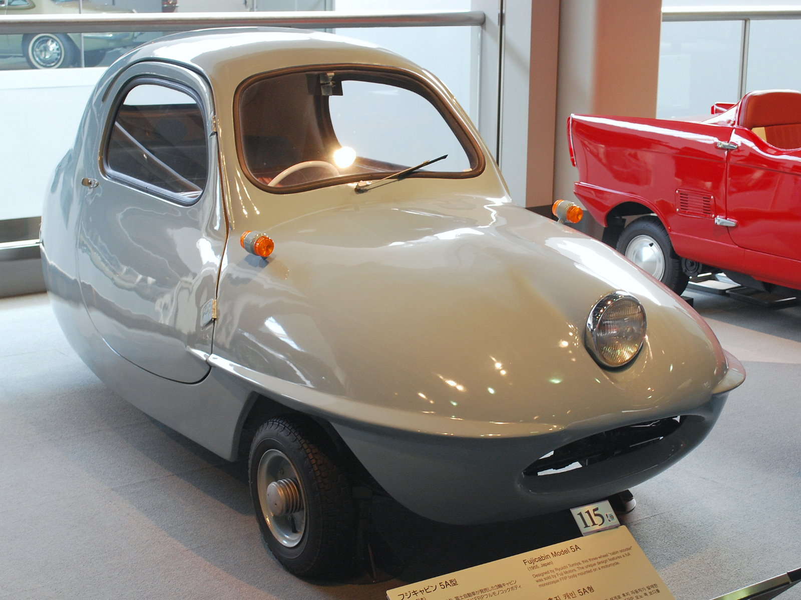 Fujicabin (1955 - 1956)